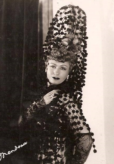 Carmen Olmedo-vedette peruana